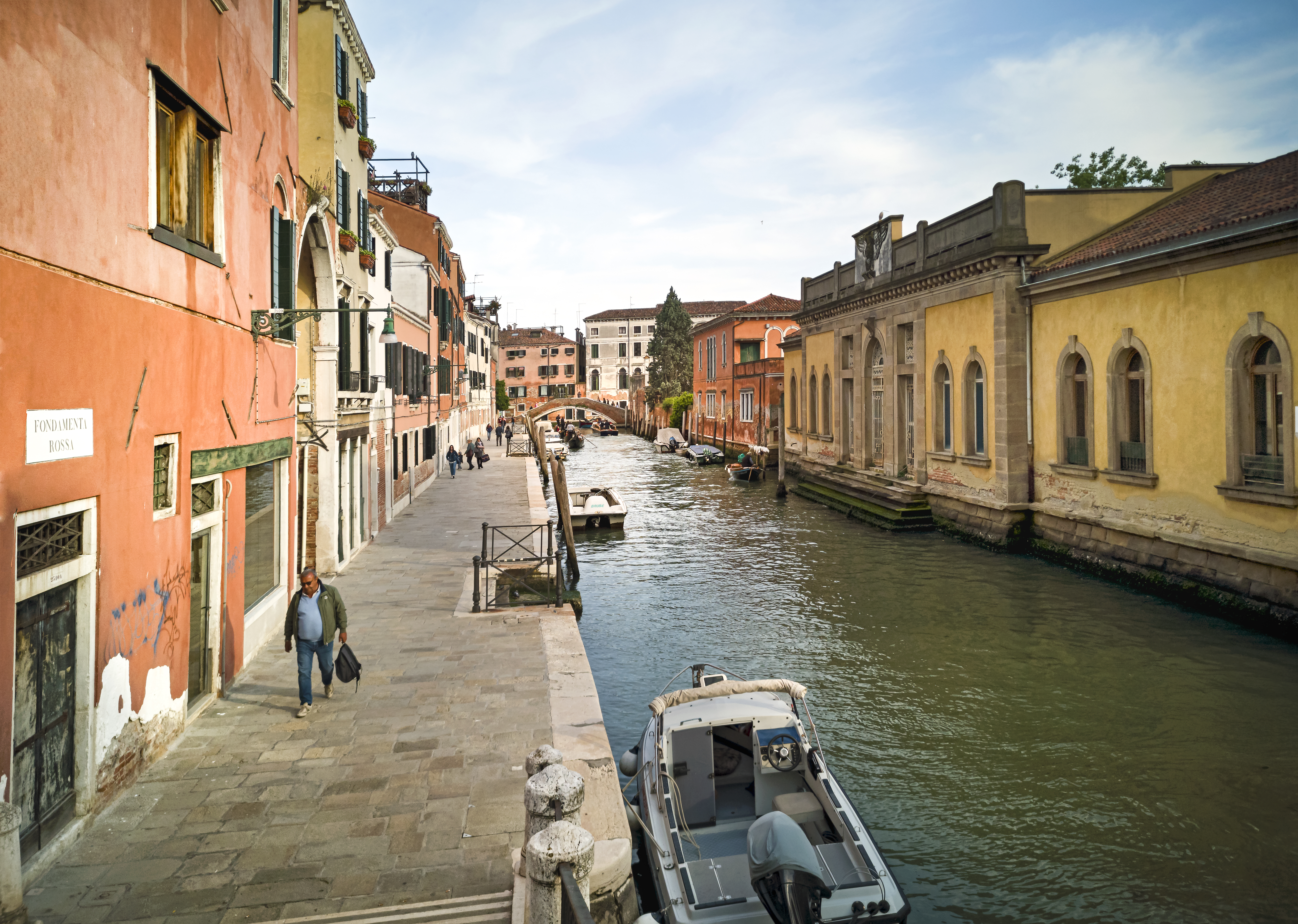 Rio Briati in Venice. The rio in its entirety, given Ponte Rosso.